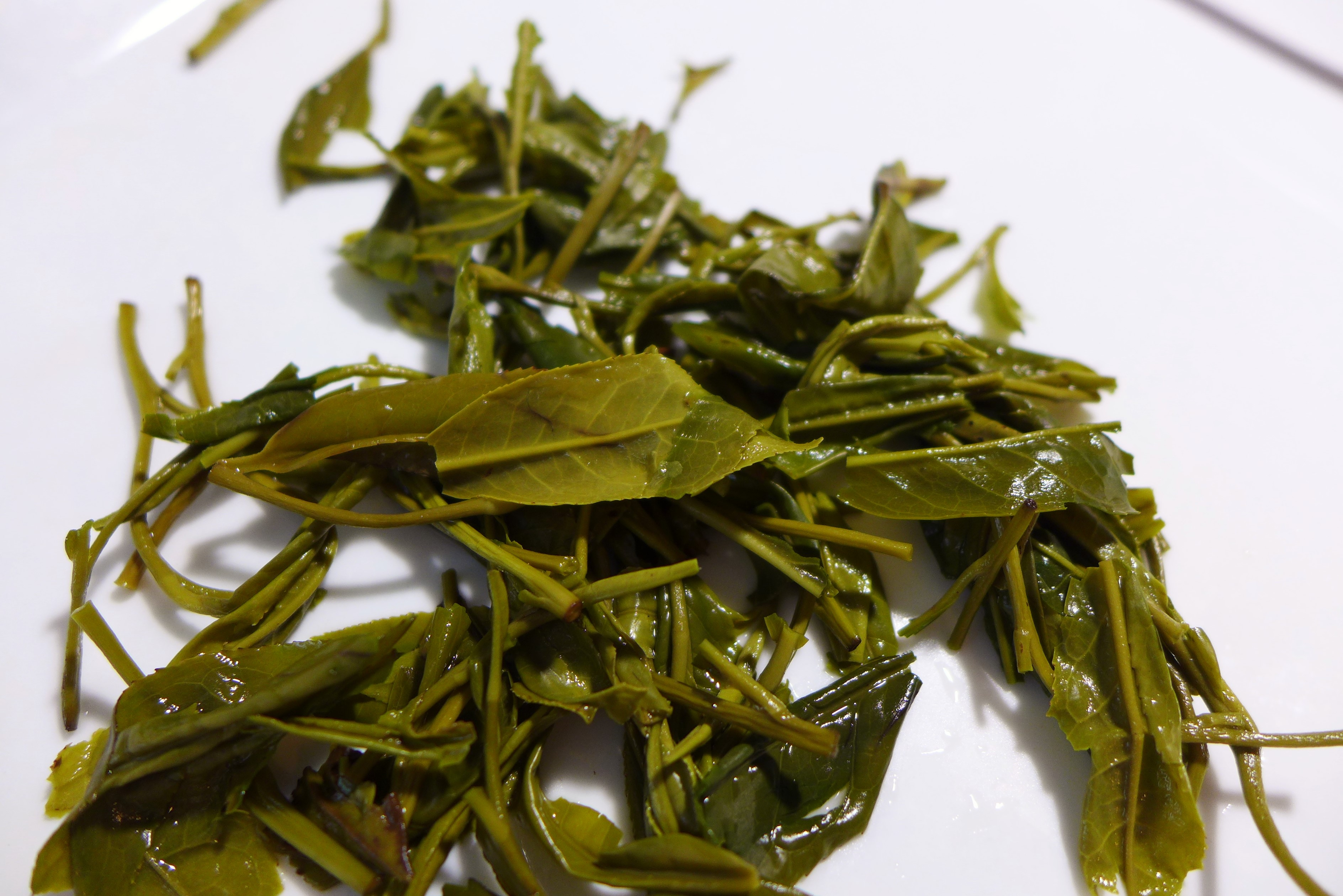 green tea